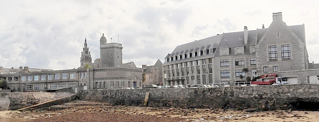 Station biologique de Roscoff (Finistère, France)